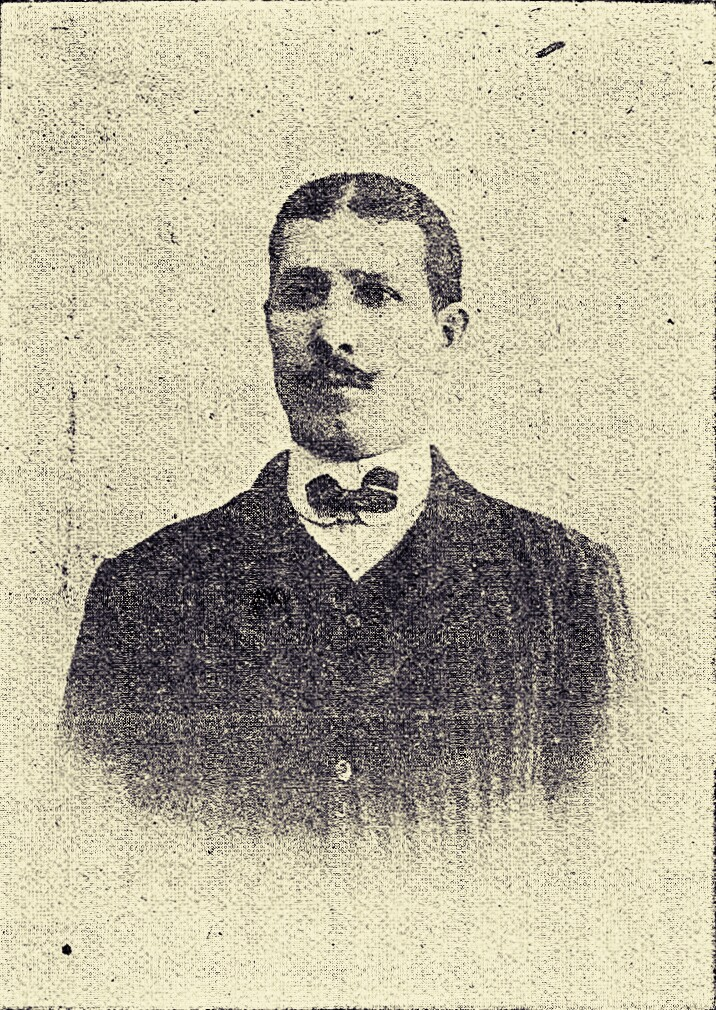 Hussein Hilmi, founder of Ottoman Socialist Party, one of the early Turkish Socialists